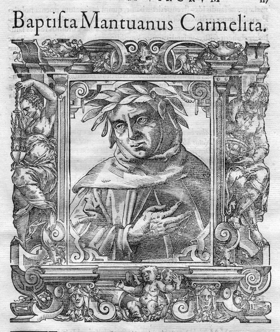 Engraving with Baptista Mantuanus' portrait, mid. 15th cent.